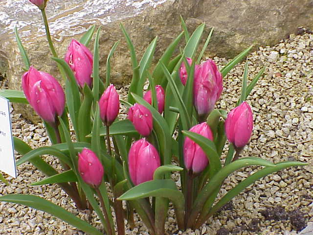 Species: Tulipa pulchella Family: Liliaceae Image No. 2